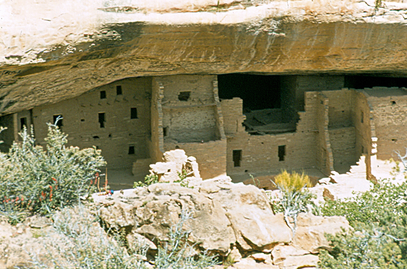 Mesa Verde National Park in 1982